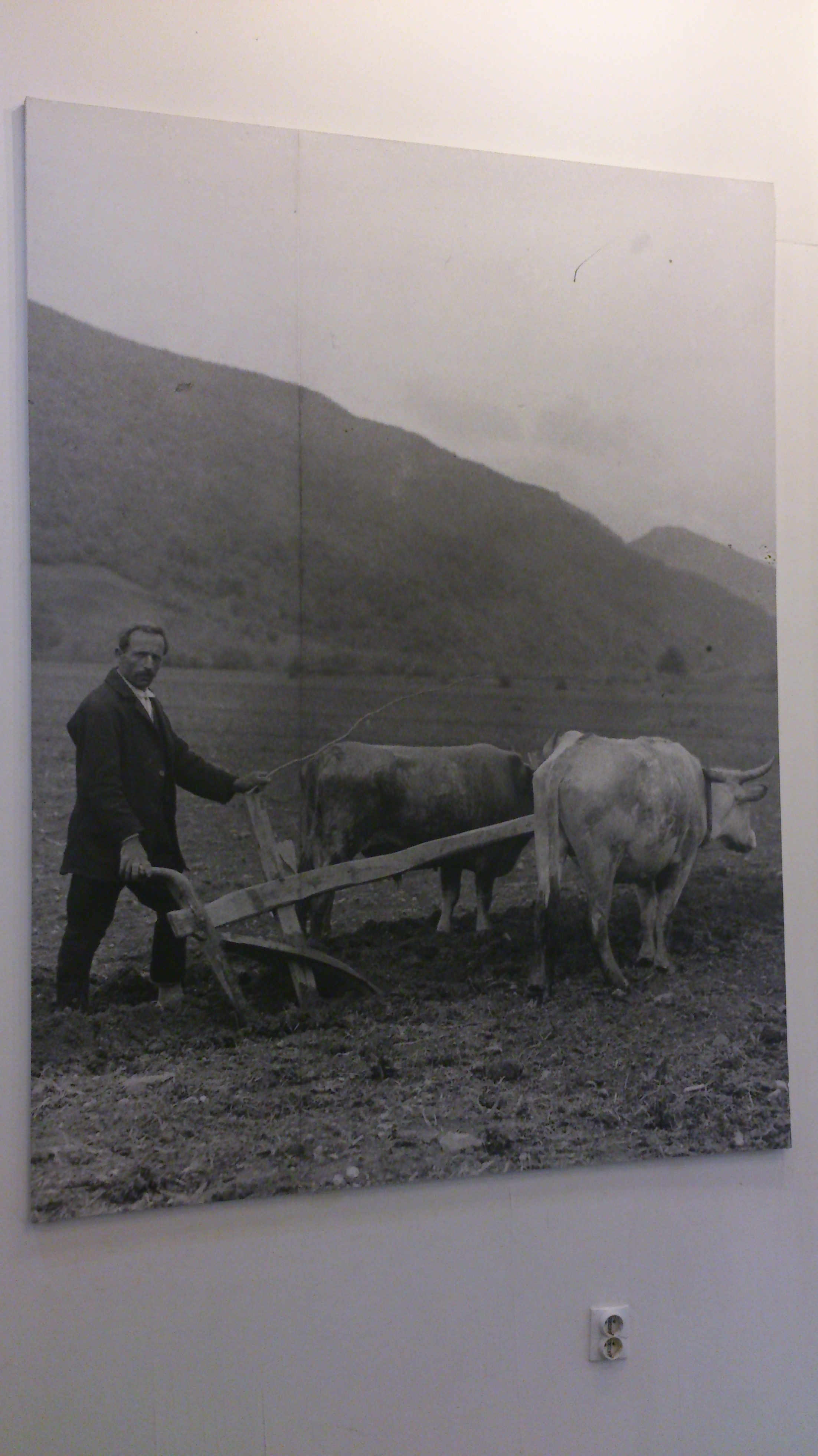 Etnografski muzej Beograd Srpski (latinica): Etnografski muzej u Beogradu